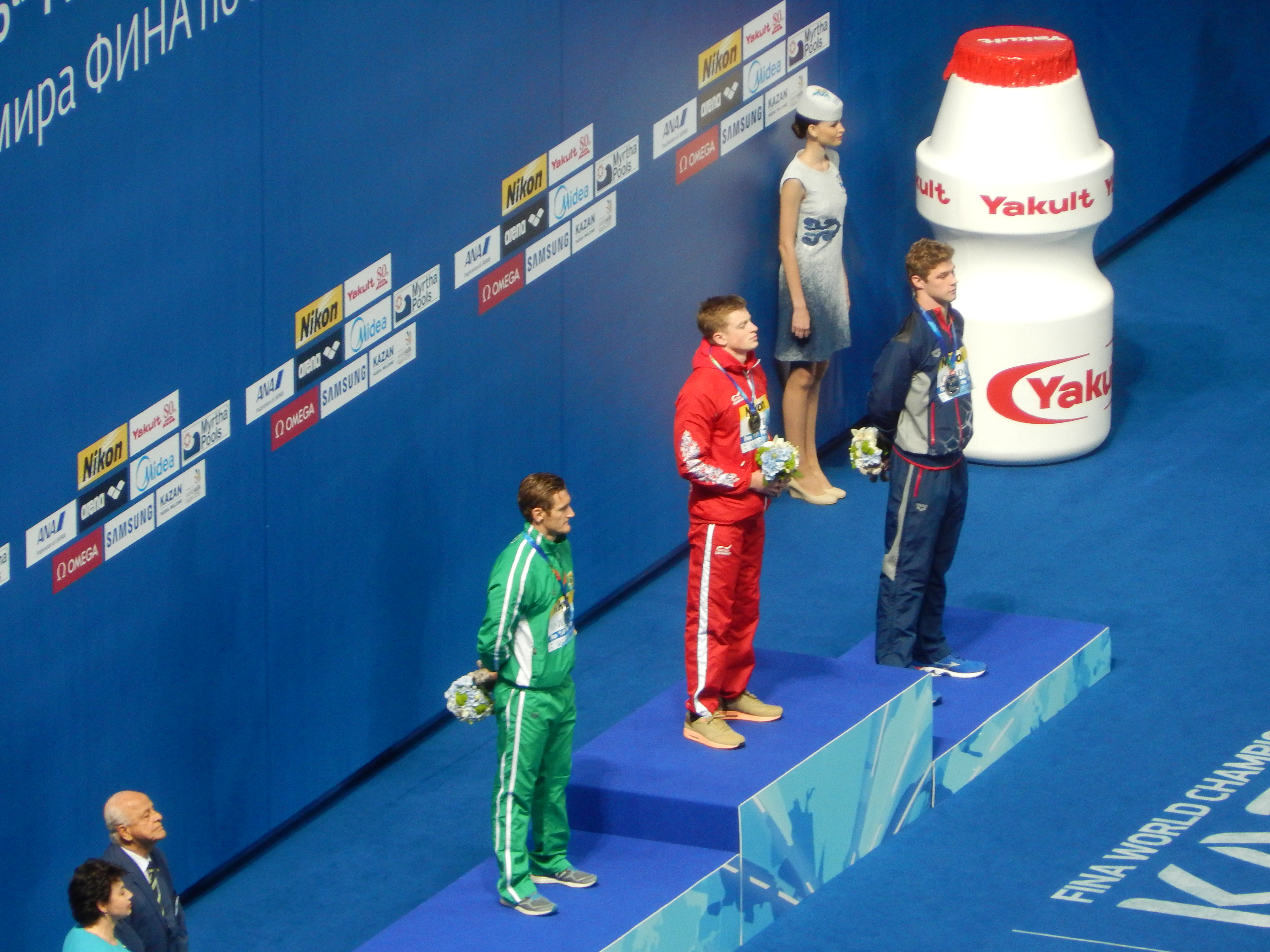 Medallists at the men's 50 metres breast in Kazan 2015